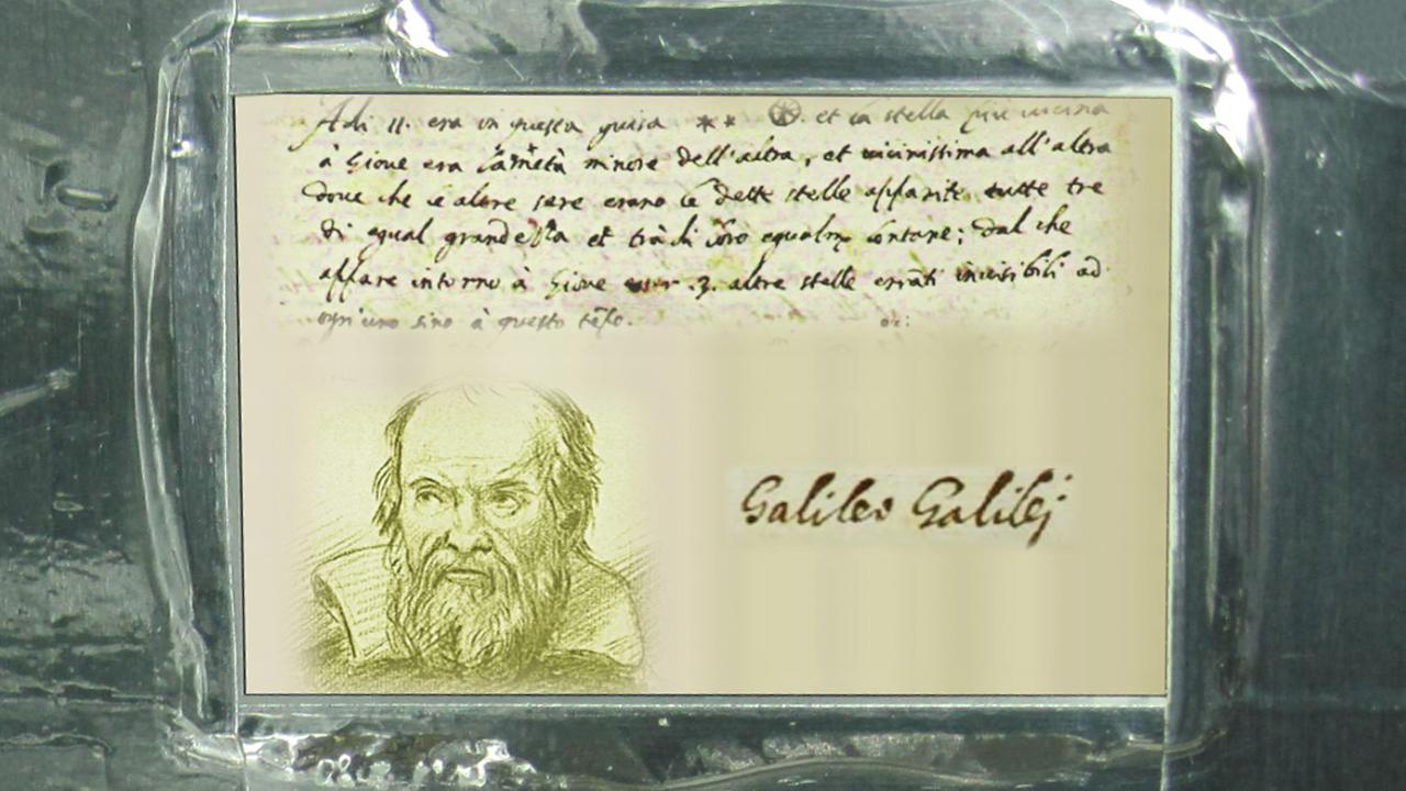 The Galileo plaque aboard Juno